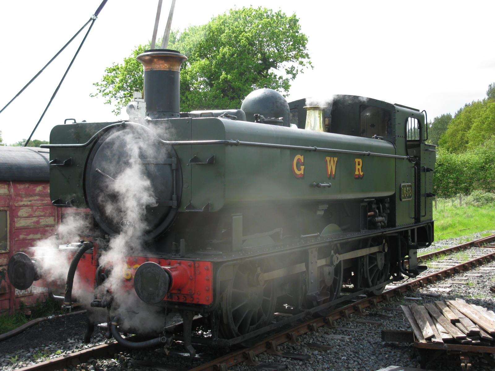 Great Western Railway 16xx class No. 1638 at Bodiam station on the Kent & East Sussex Railway.